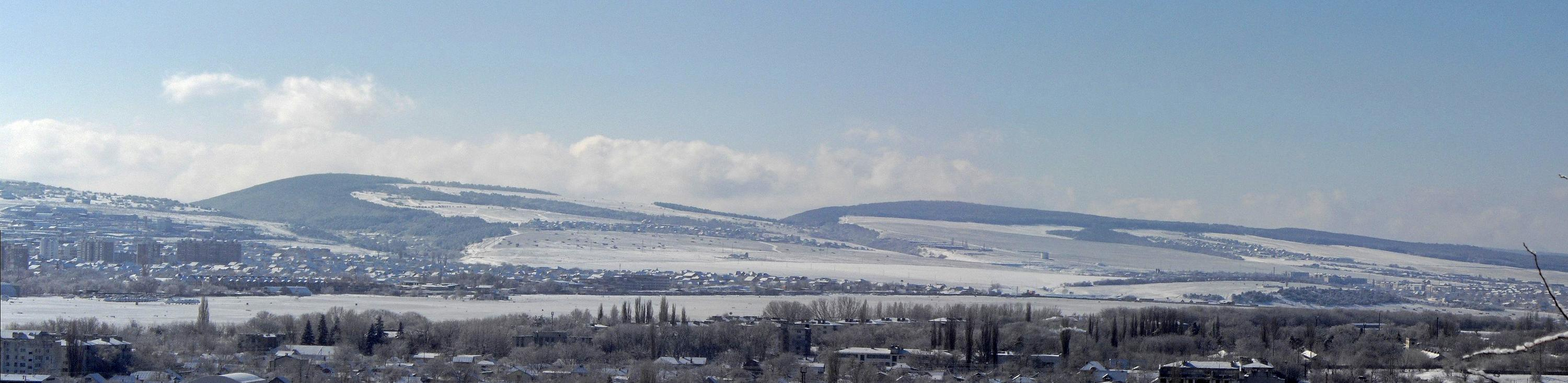 Cuests. Simferopol. Crimea. Airfield Zavodskoye